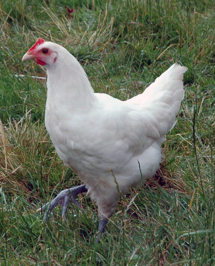 one Bresse Gauloise bird, cropped from File:Volailles Bresse.JPG by User:Aleks